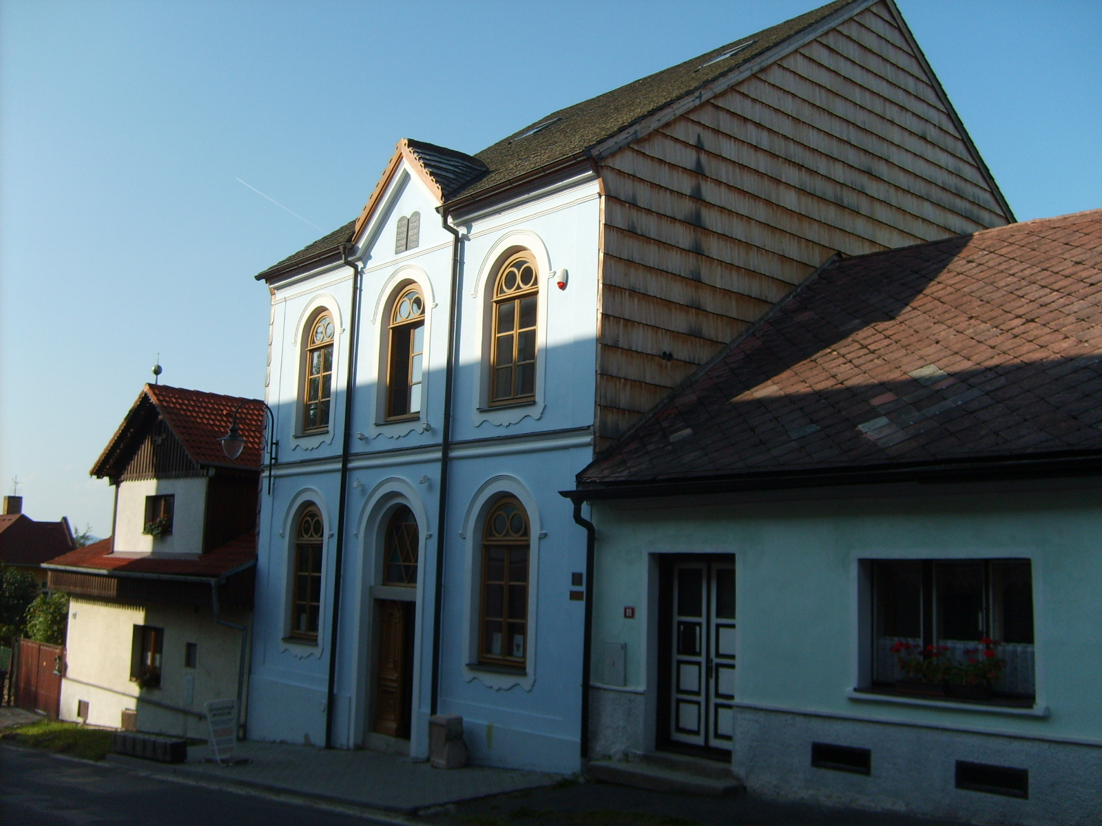 Mountain synagogue in Hartmanice.